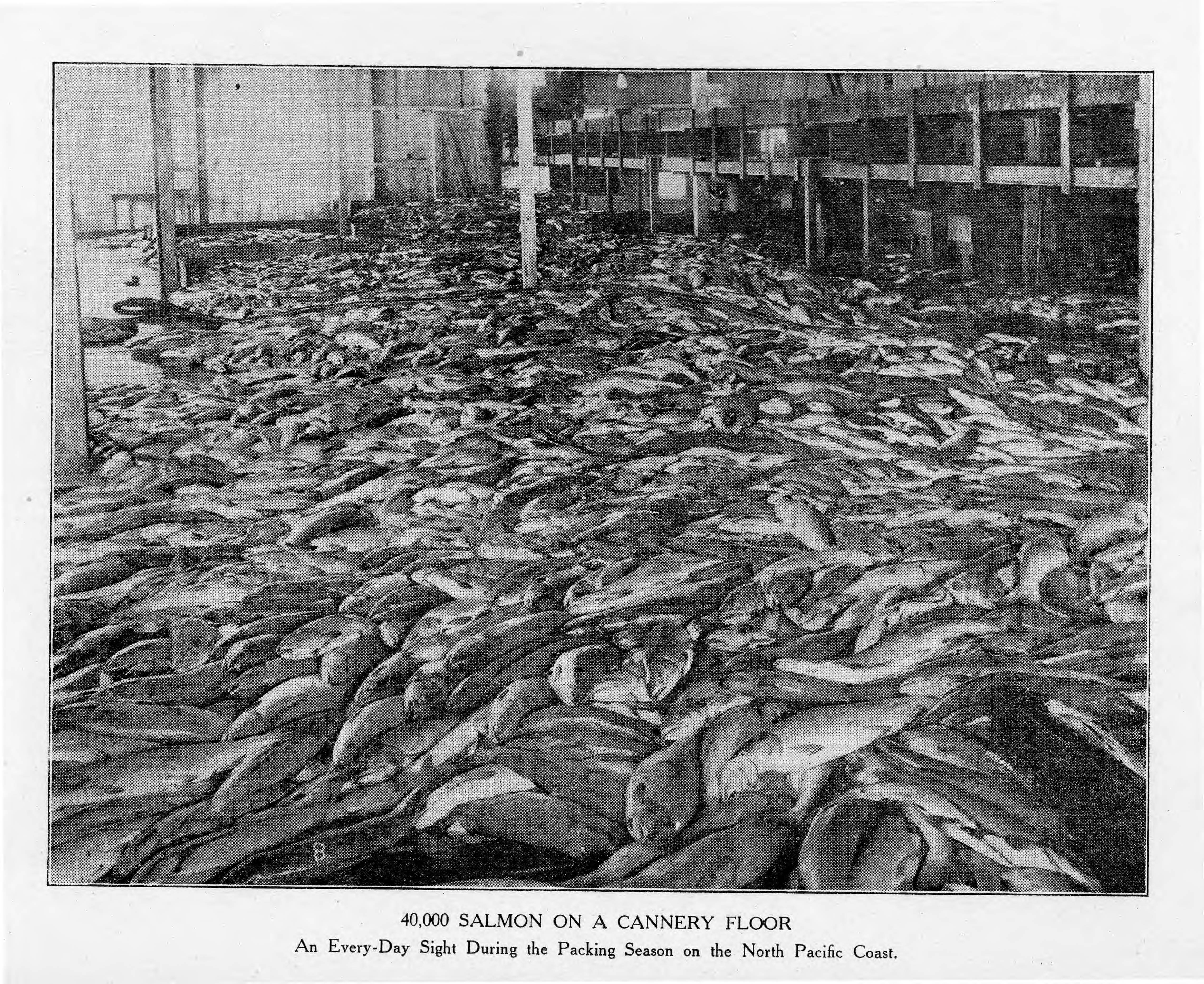 From the materials for the Alaska-Yukon-Pacific Exposition of 1909, held in Seattle.